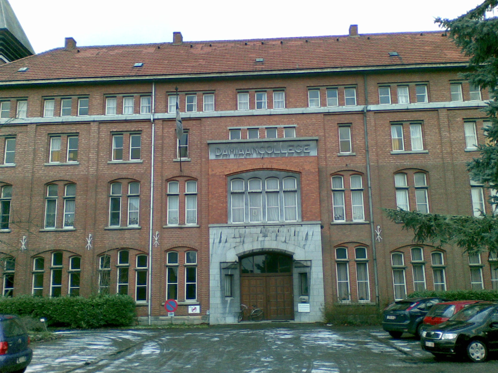 Damiaaninstituut Aarschot